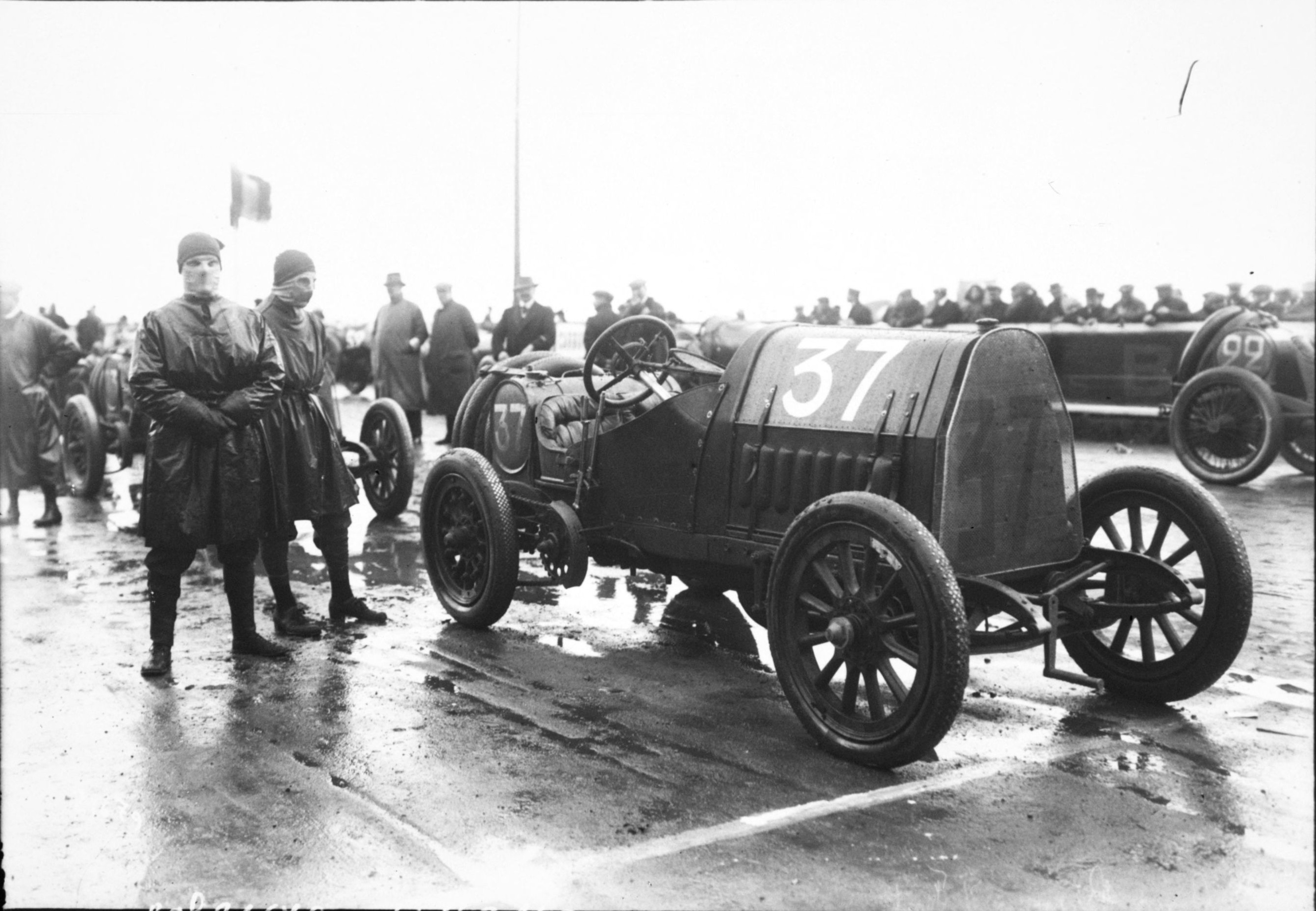 David Bruce-Brown in his Fiat at the 1912 French Grand Prix at Dieppe.